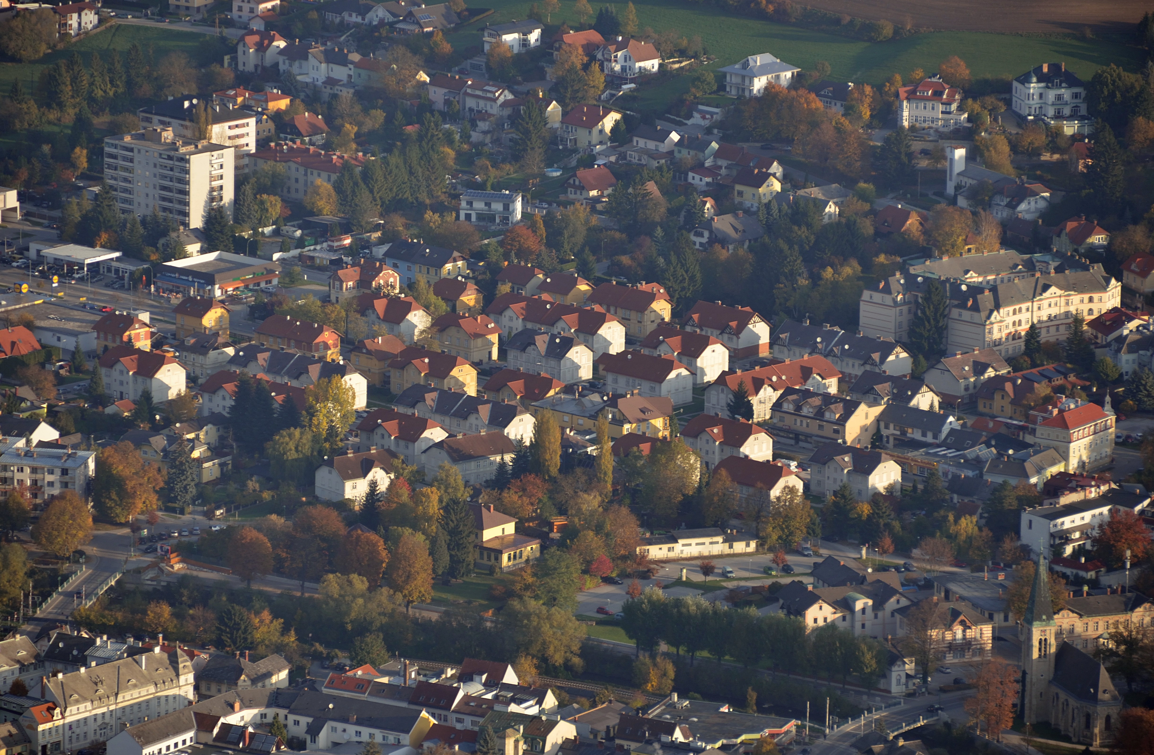 Workers' houses Wiedenbrunn, Berndorf, Lower Austria, from hot air balloon.